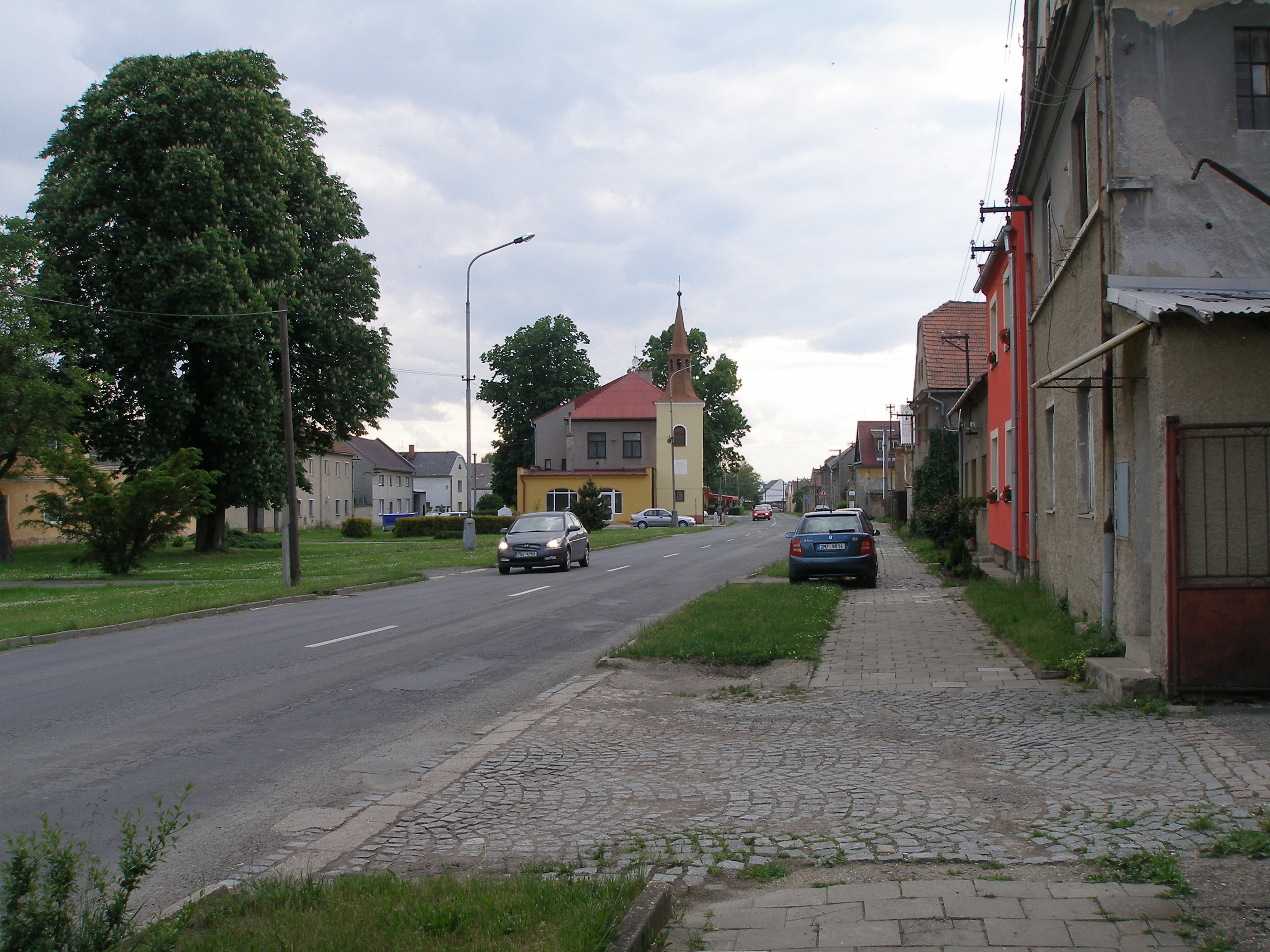 Lužice (Olomouc District) - the centre of the village Česky: Lužice (okres Olomouc) - centrum obce